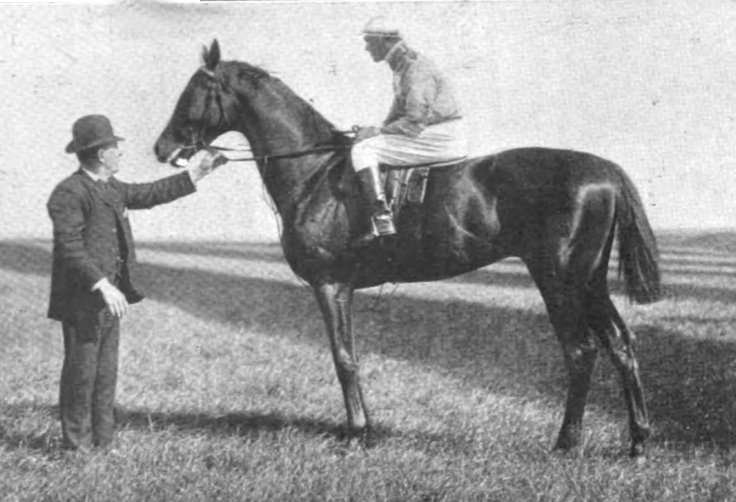 Epsom Derby winner Cicero, circa 1905.